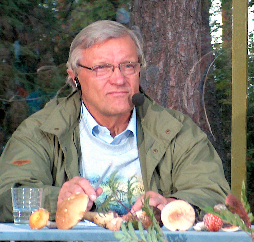 The filming of the tv program The Evening of Nature at Taaborinvuori in Nurmijärvi - Harri Dahlström